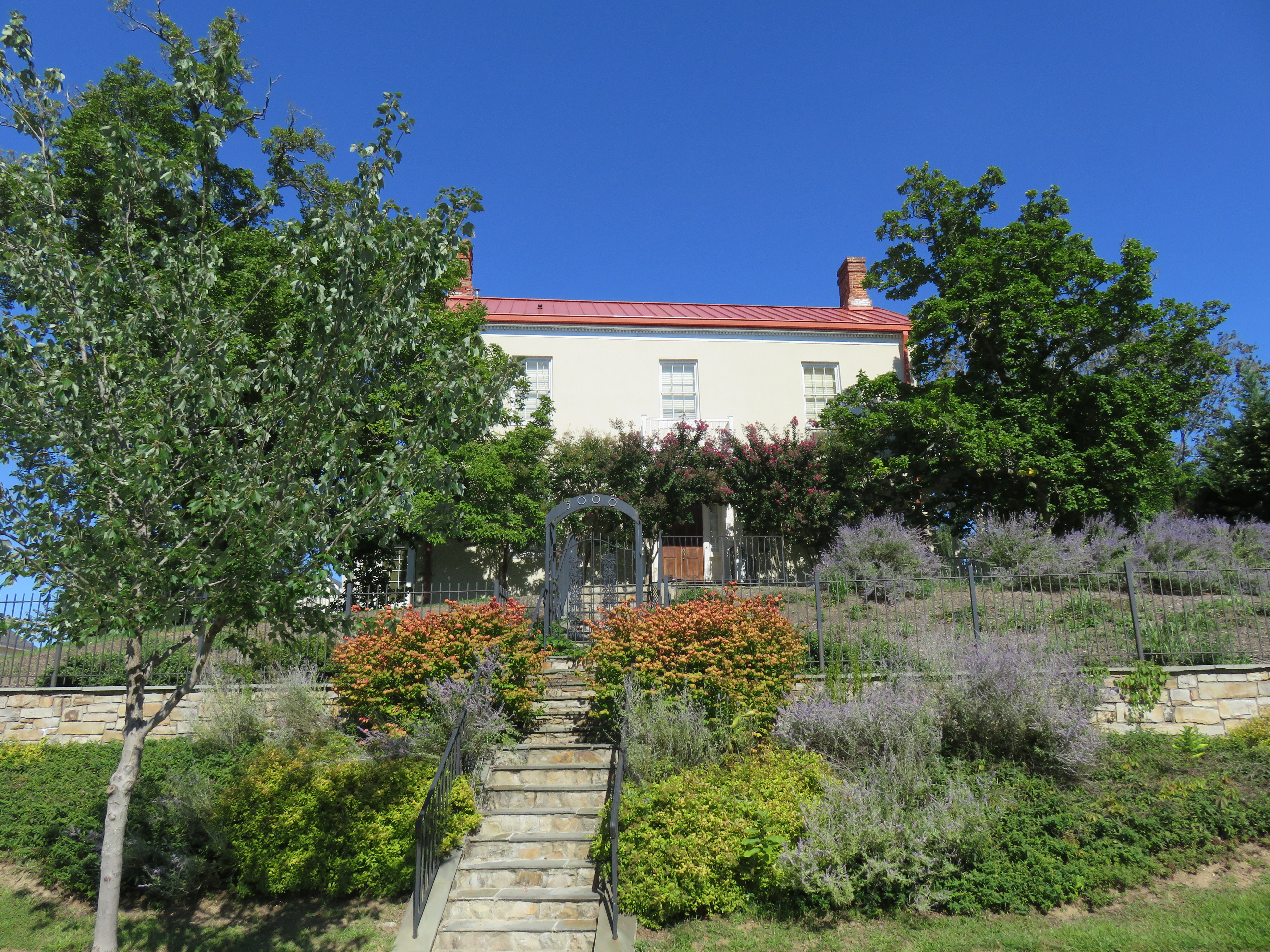 Mount Joy Farm